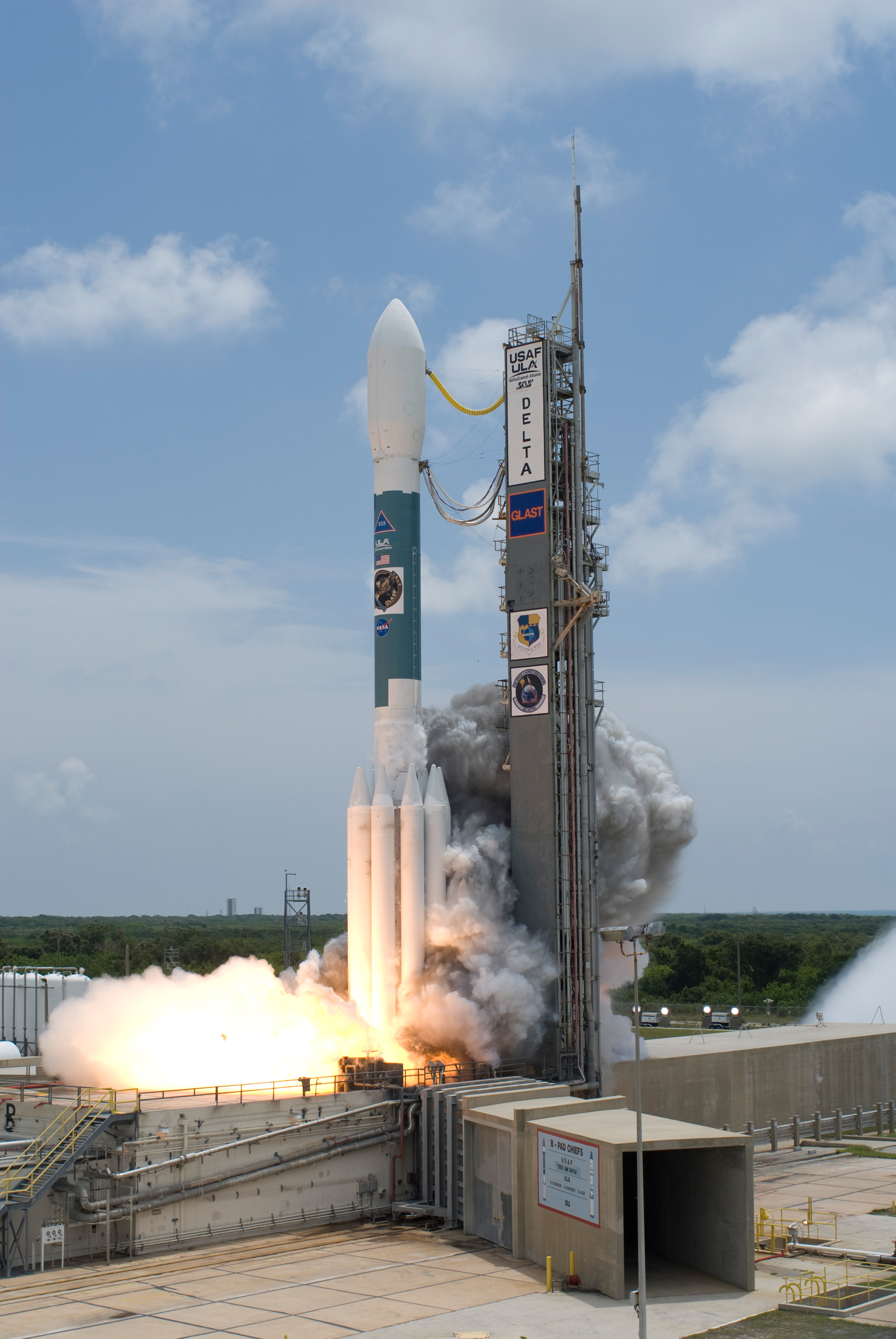 A Delta II 7920 Heavy ignites at 16:05 UTC on June 11, 2008 on Launch Pad 17B at the Cape Canaveral Air Force Station.